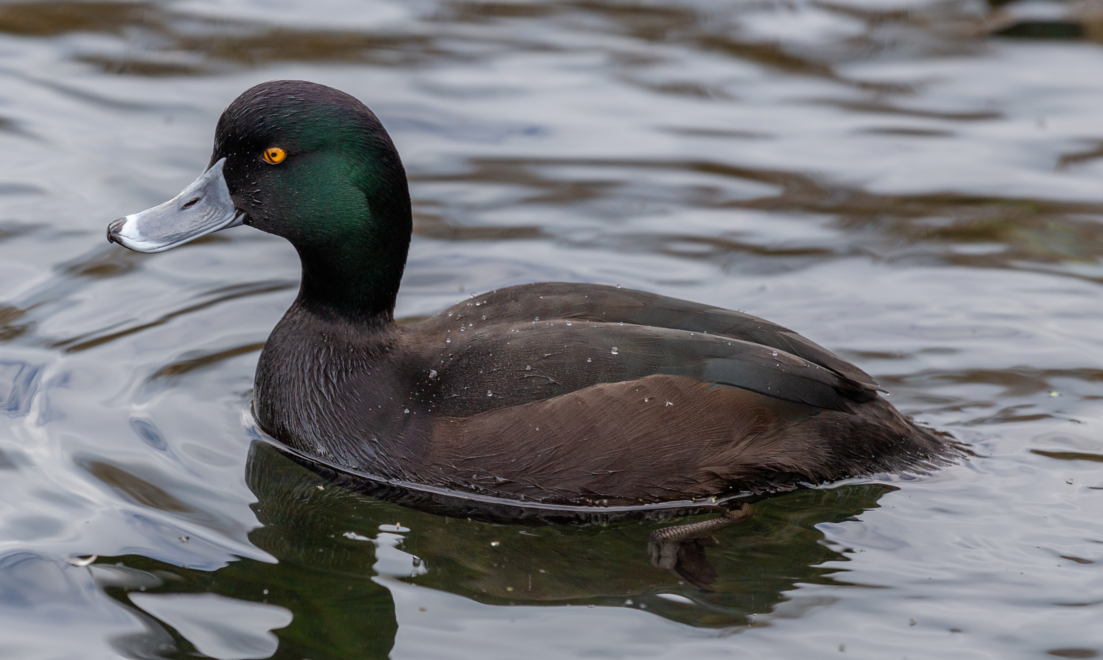 New Zealand scaup (Aythya novaeseelandiae), The Groynes, Christchurch, New Zealand